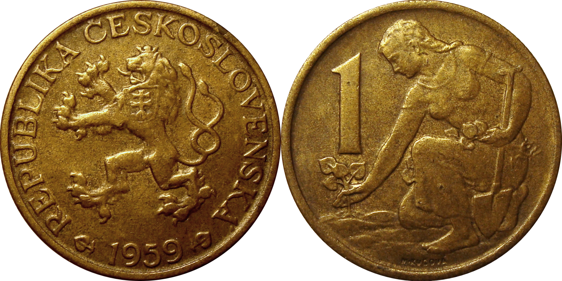 1 czechoslovak koruna, pattern from 1957. Author of reverse: Marie Uchytilová-Kučová.